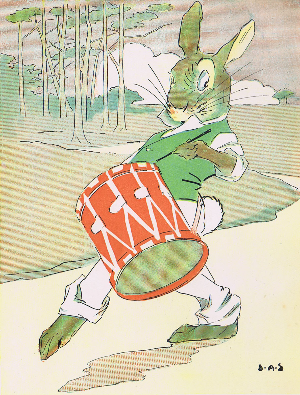 JAS Nights